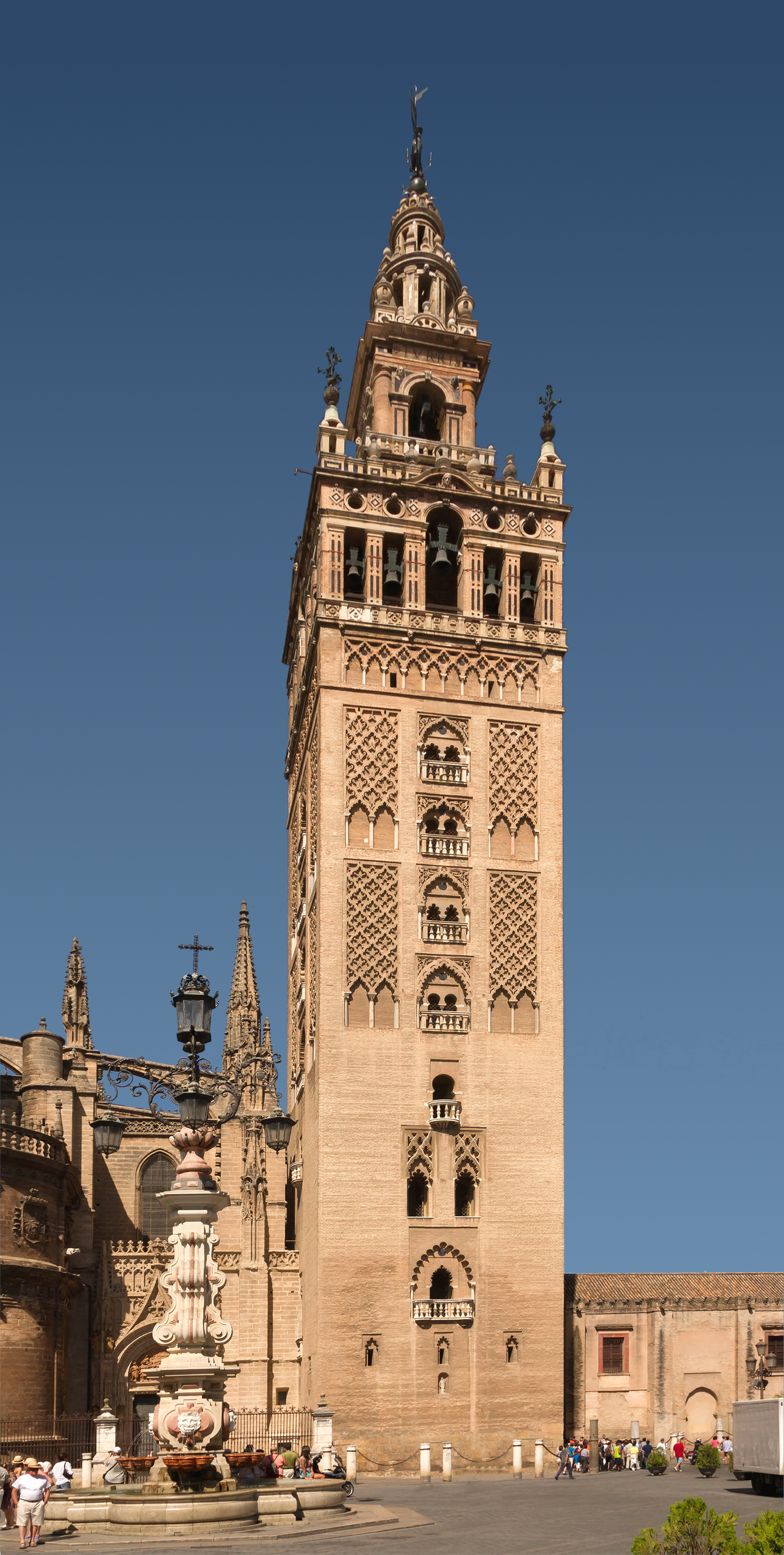 The "Giralda", August 2012, Seville, Spain.